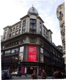 Ana María Schapira's Tango school, at the former Harrods department store, Buenos Aires (877 Florida Street).